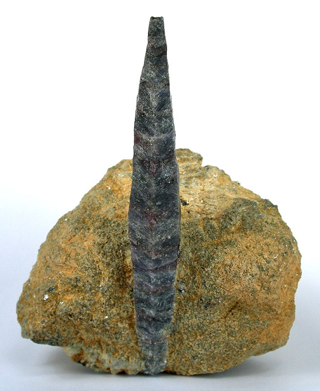 Corundum—Sapphire Locality: Unnamed Corundum Occurrences, San Jacinto Mountains—Santa Rosa and San Jacinto Mountains National Monument, Riverside County, California. (Locality at ) Size: cabinet, 10.5 x 7.5 x 5.5 cm Sapphire A super example of these strange sapphires collected in the mid 1990s by the Gochenour brothers, in Riverside County. This crystal is very aesthetically placed, and displayed in the matrix. It has, as most do, a few clean repairs but the price is also adjusted accordingly. These are significant and unusual big sapphire crystals for a US locality! (OK, strictly speaking not in Pala, San Diego County at all — but hey, close enough ? — no.)'